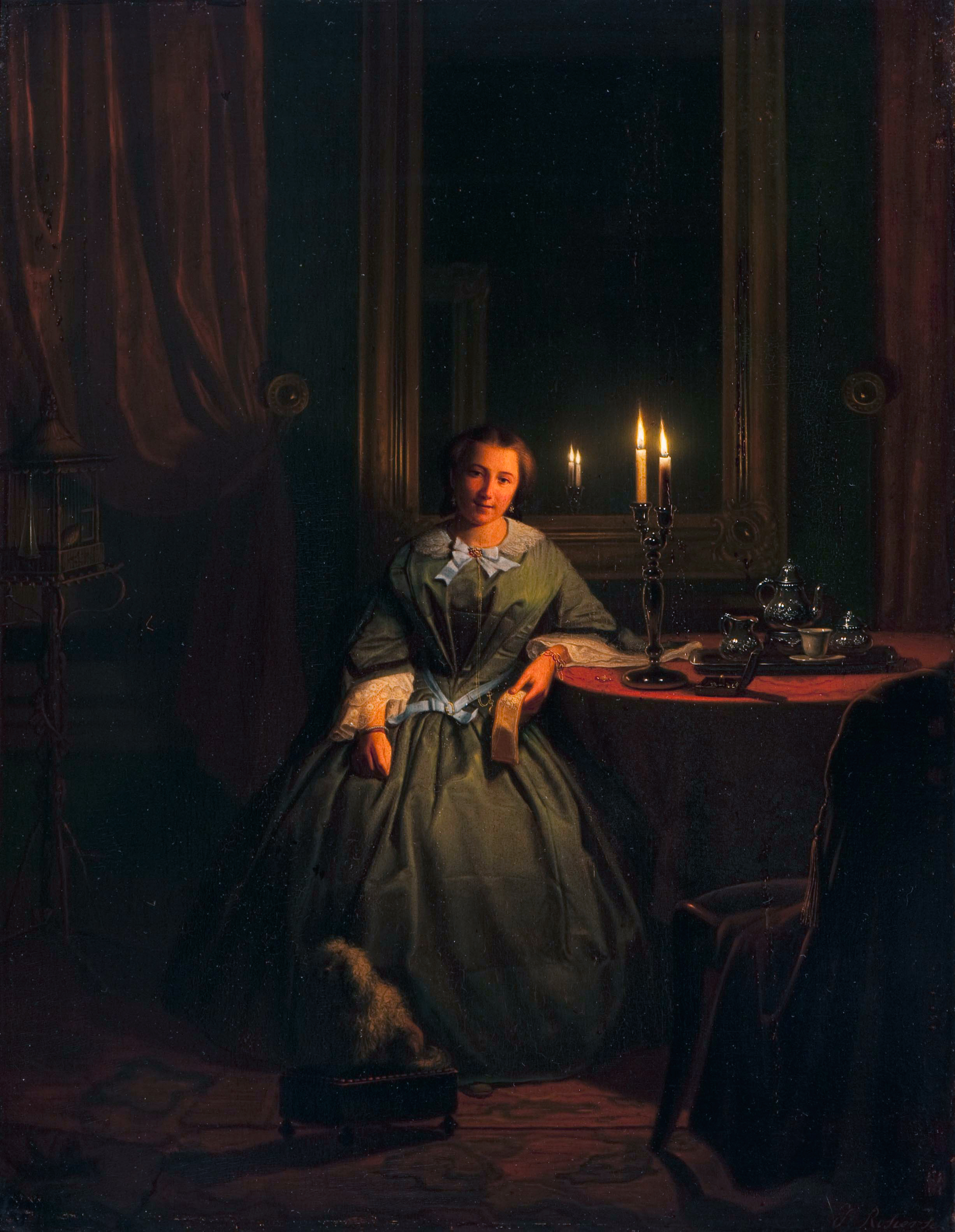 Young woman at the table in candlelight oil on panel 40.1 x 30.9 cm signed b.r.: J Rosierse